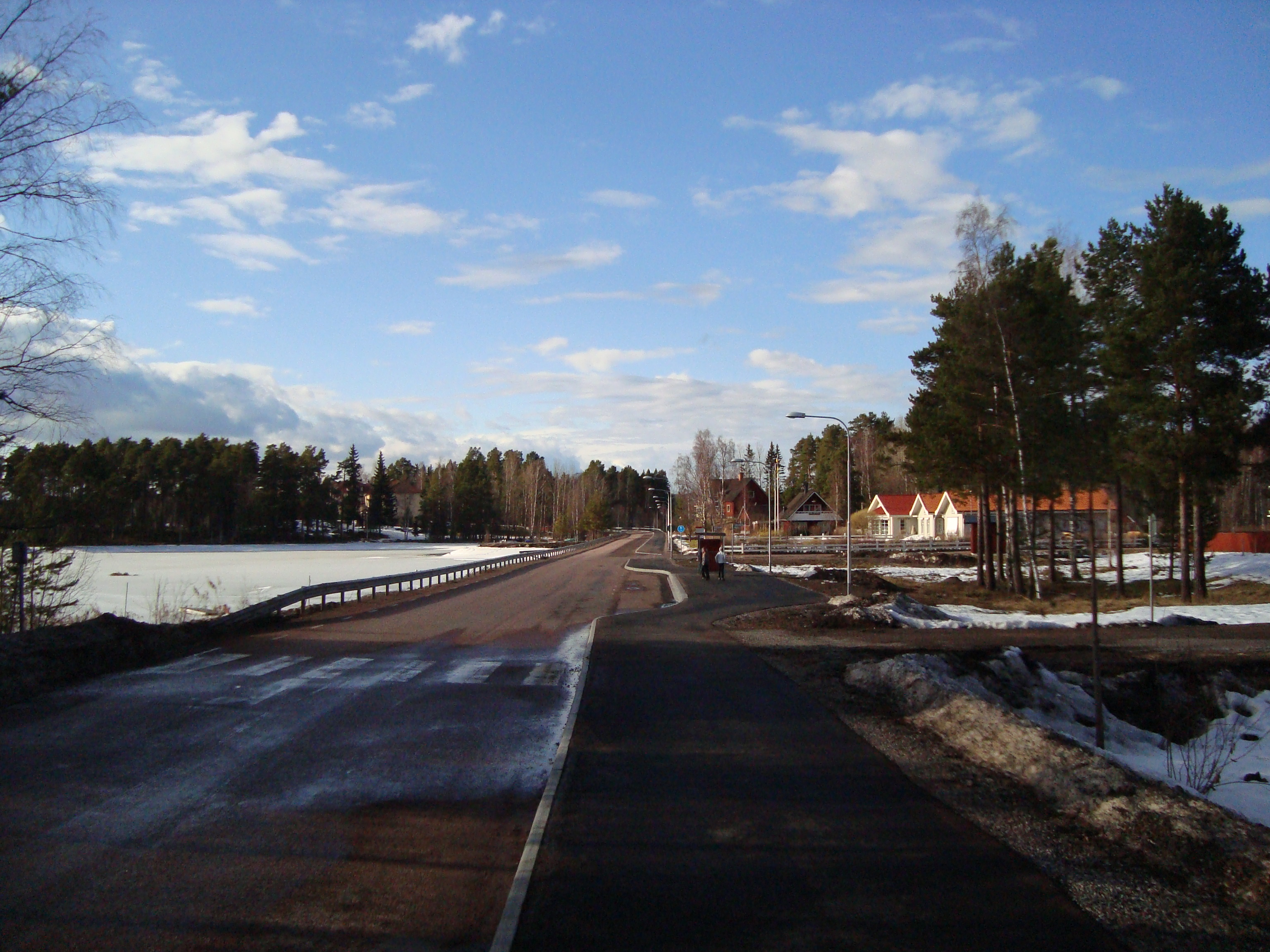 Uddnäs, Falun Municipality, Sweden. Lake Runn on the left, monastery Birgittagården in the background on the left.